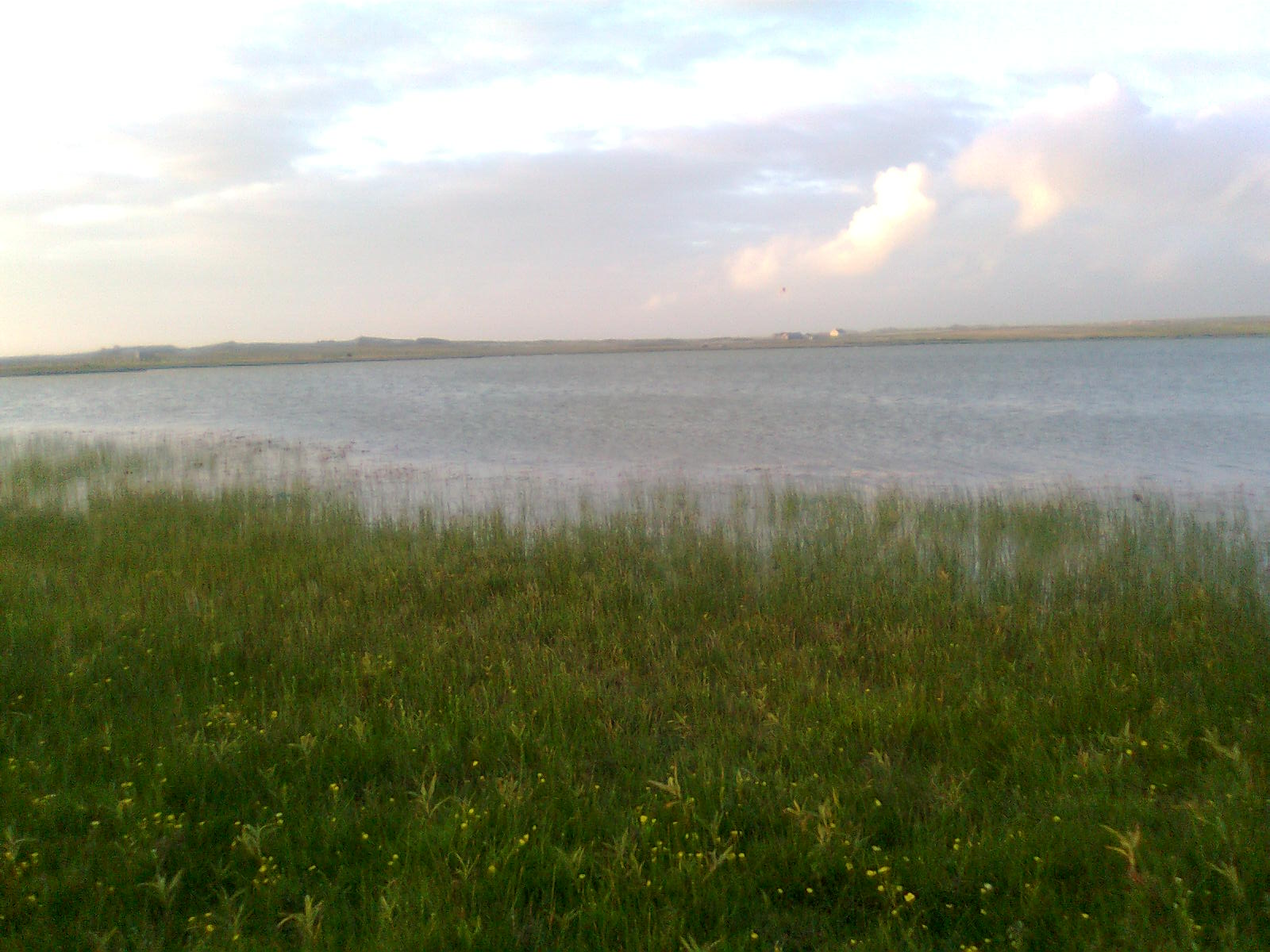 Cross Lake, Mullet Peninsula, Erris, County Mayo. Summer 2010